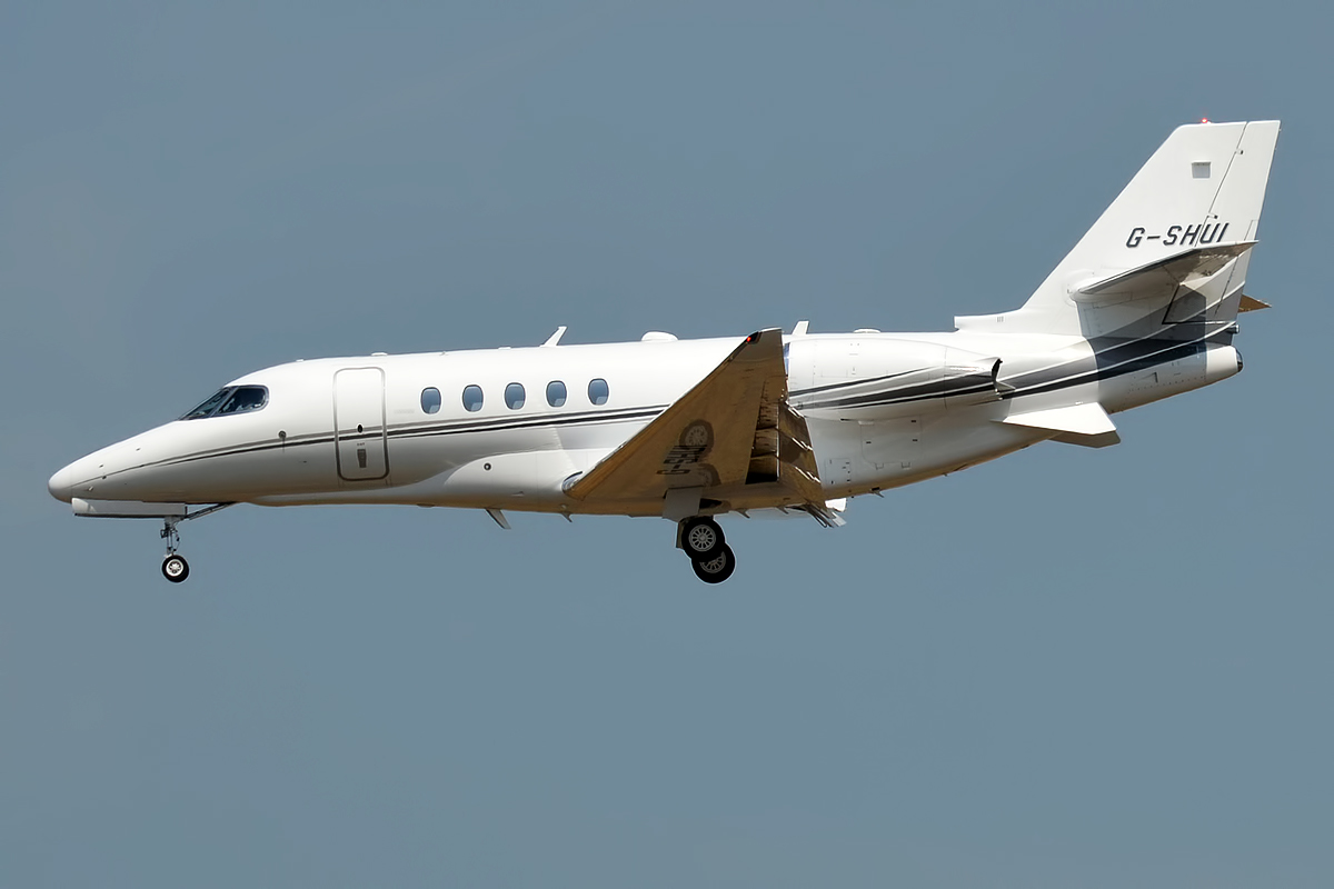 Air Charter Scotland, G-SHUI, Cessna 680A Citation Latitude